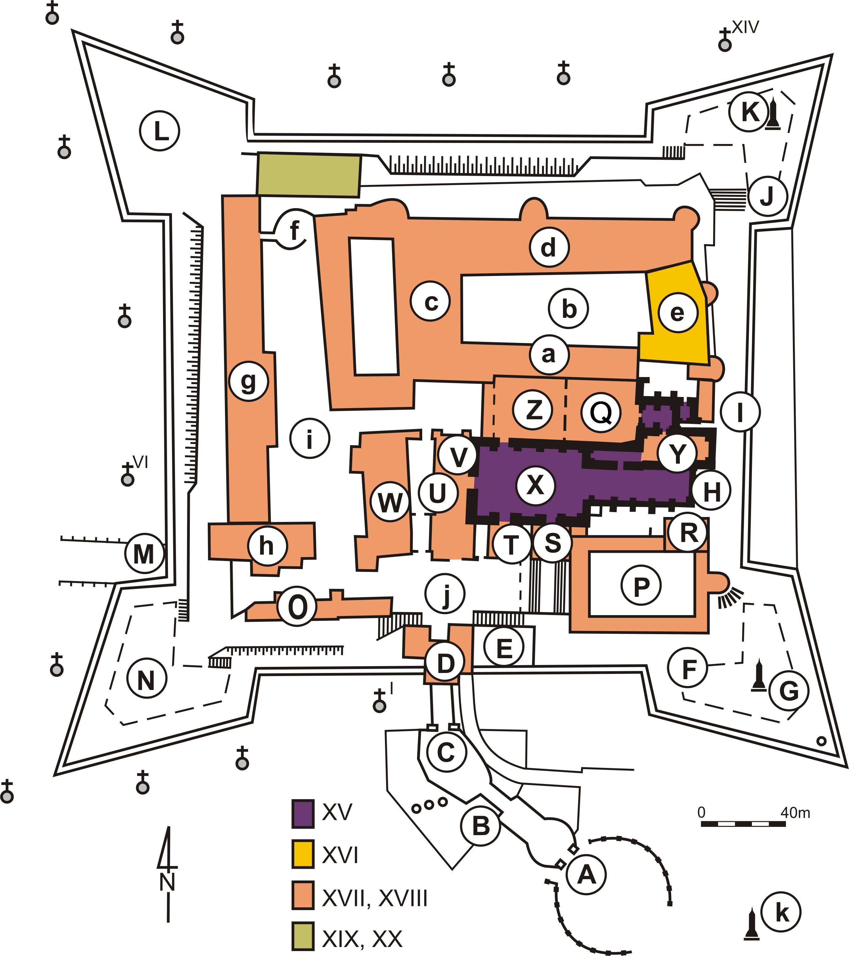 Jasna Góra Monastery, Częstochowa, Poland